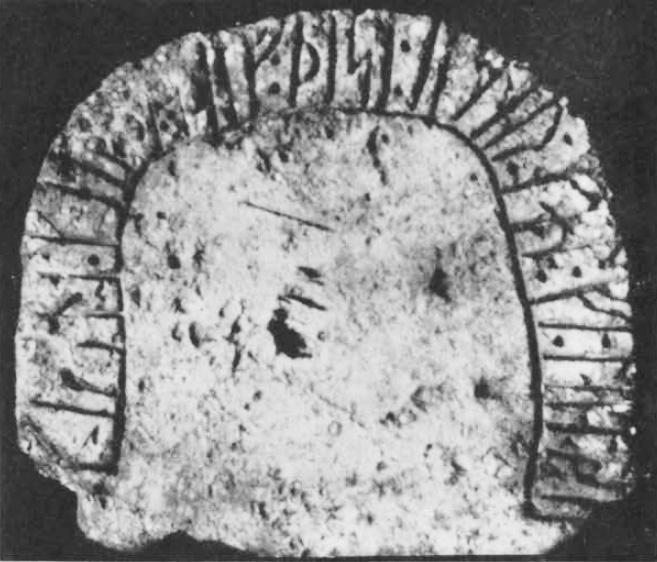 The runestone from Berezanj, Ukraine.